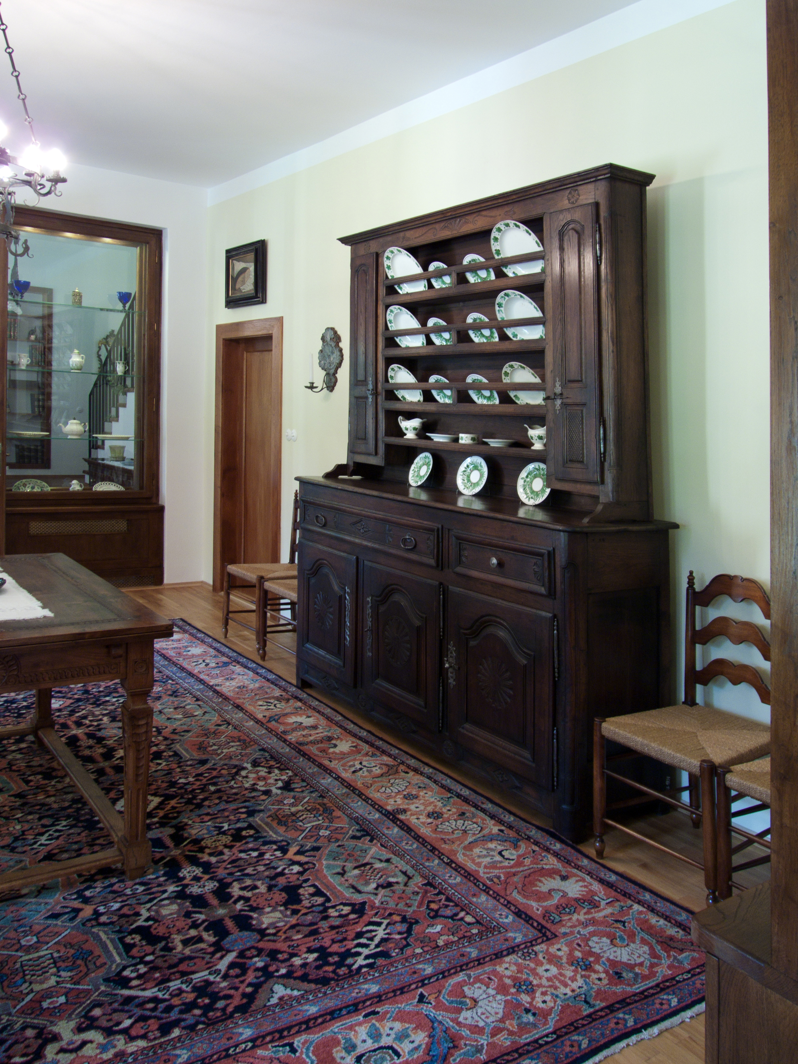 China closet in the Beneš villa (private house owned by the second Czechoslovak president Edvard Beneš) in Sezimově Ústí, Czech Republic with the original porcelain set used by Hana Benešová and the family guests